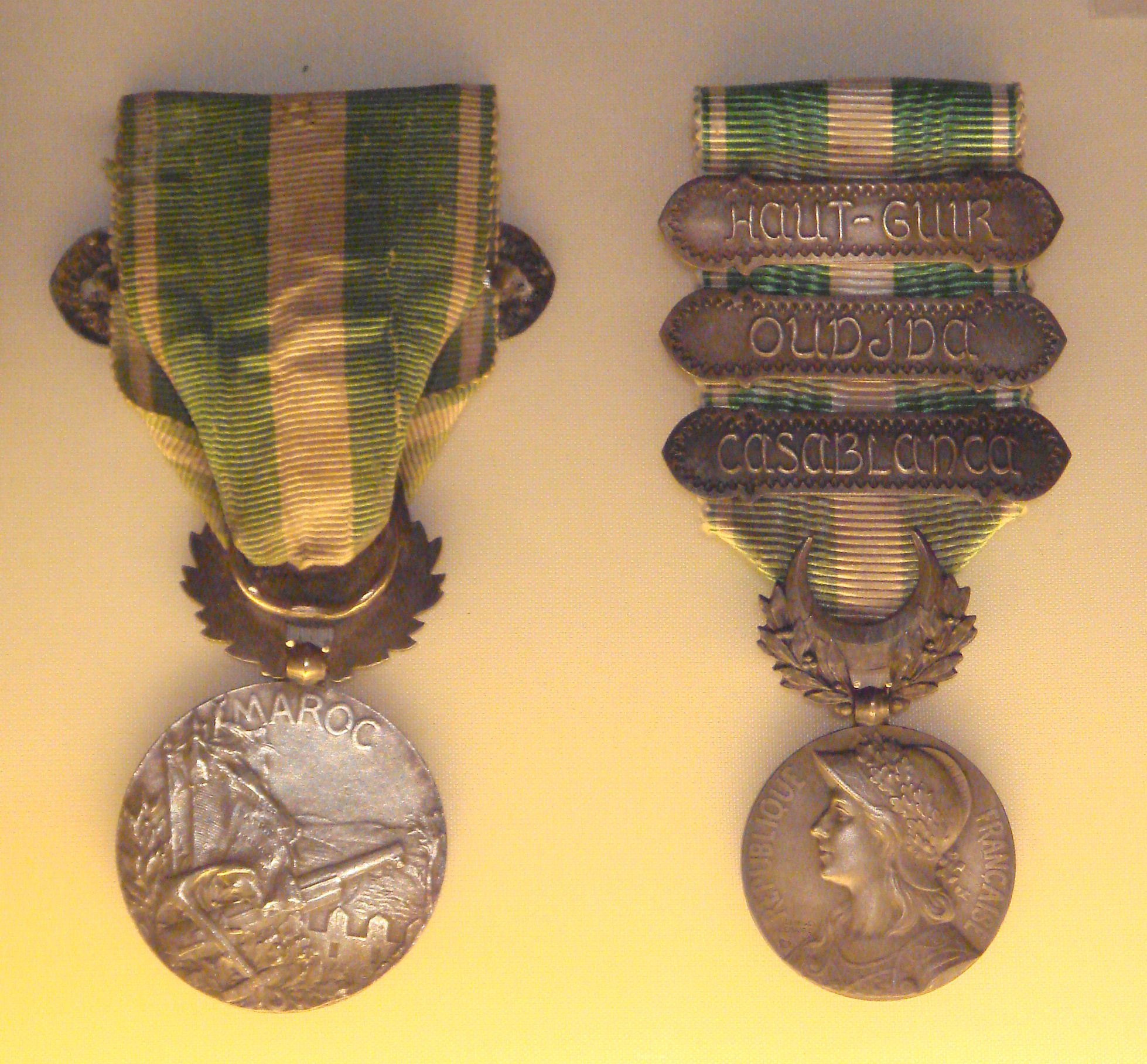 French Morocco_medal_22_July_1909.